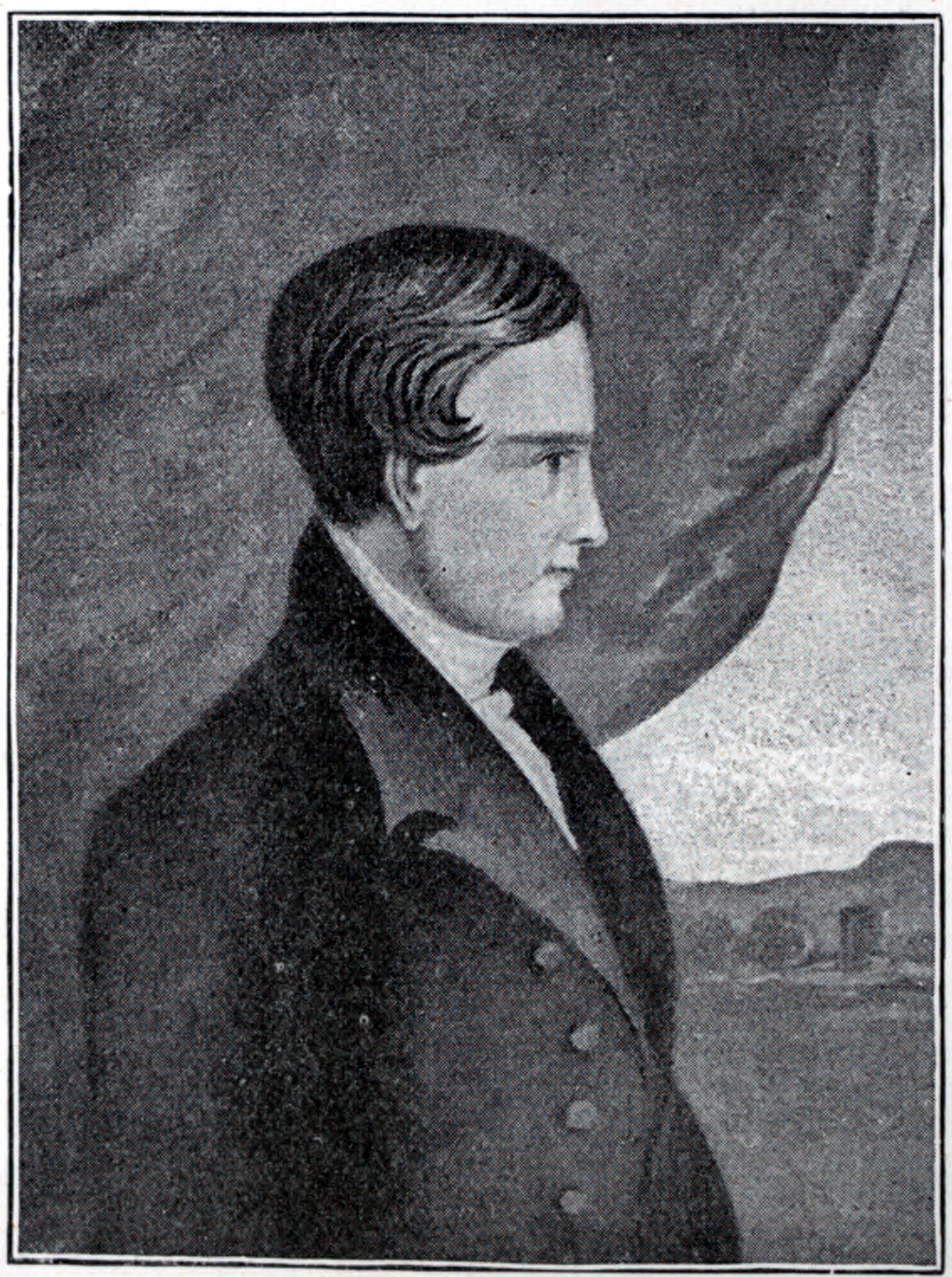 Robert Murray M'Cheyne hymn writter and minister of St. Peter's Church, Dundee from "The Sea of Galilee Mission of the Free Church of Scotland"